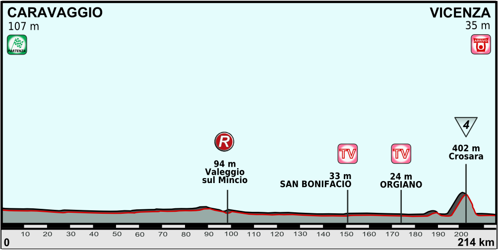 Giro d'Italia 2013 - stage profile # 17